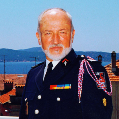 Colonel Michel Lafourcade, French firefighter